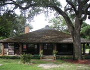 City Hall